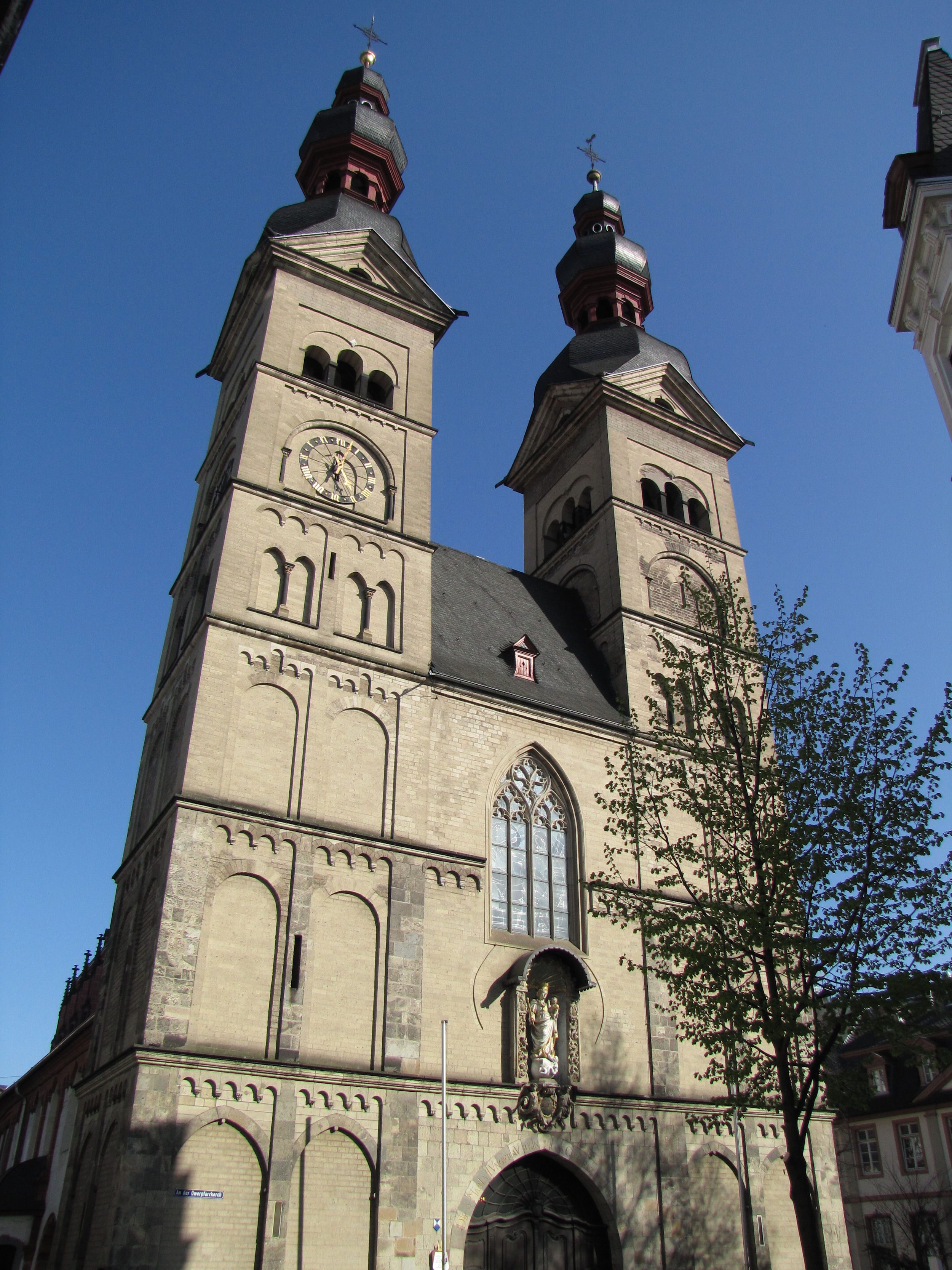 Church Liebfrauen in Koblenz